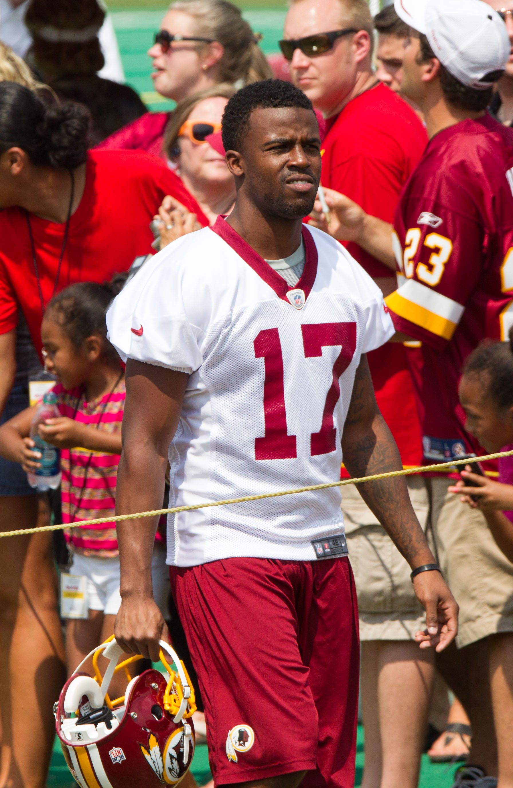 Darius Hanks at Washington Redskin Training Camp August 2, 2012